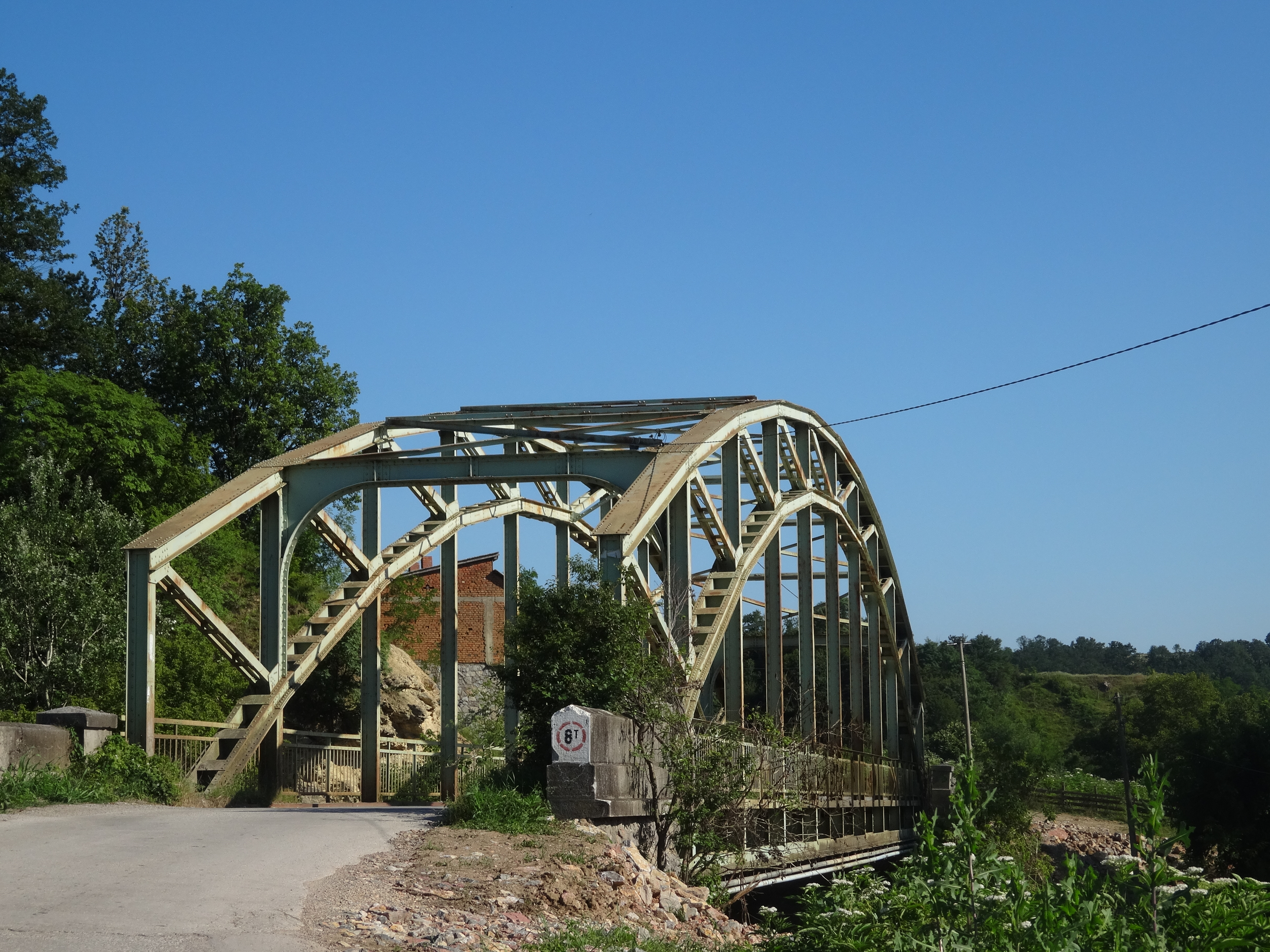 Ratkovac, Bridge over Kolubara river